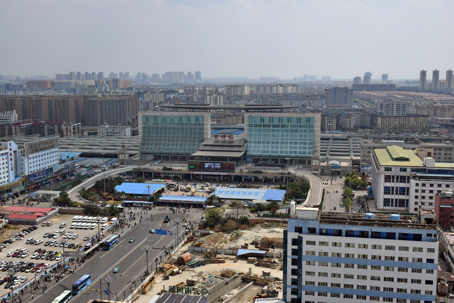 Aerial view of Kunming Railway Station